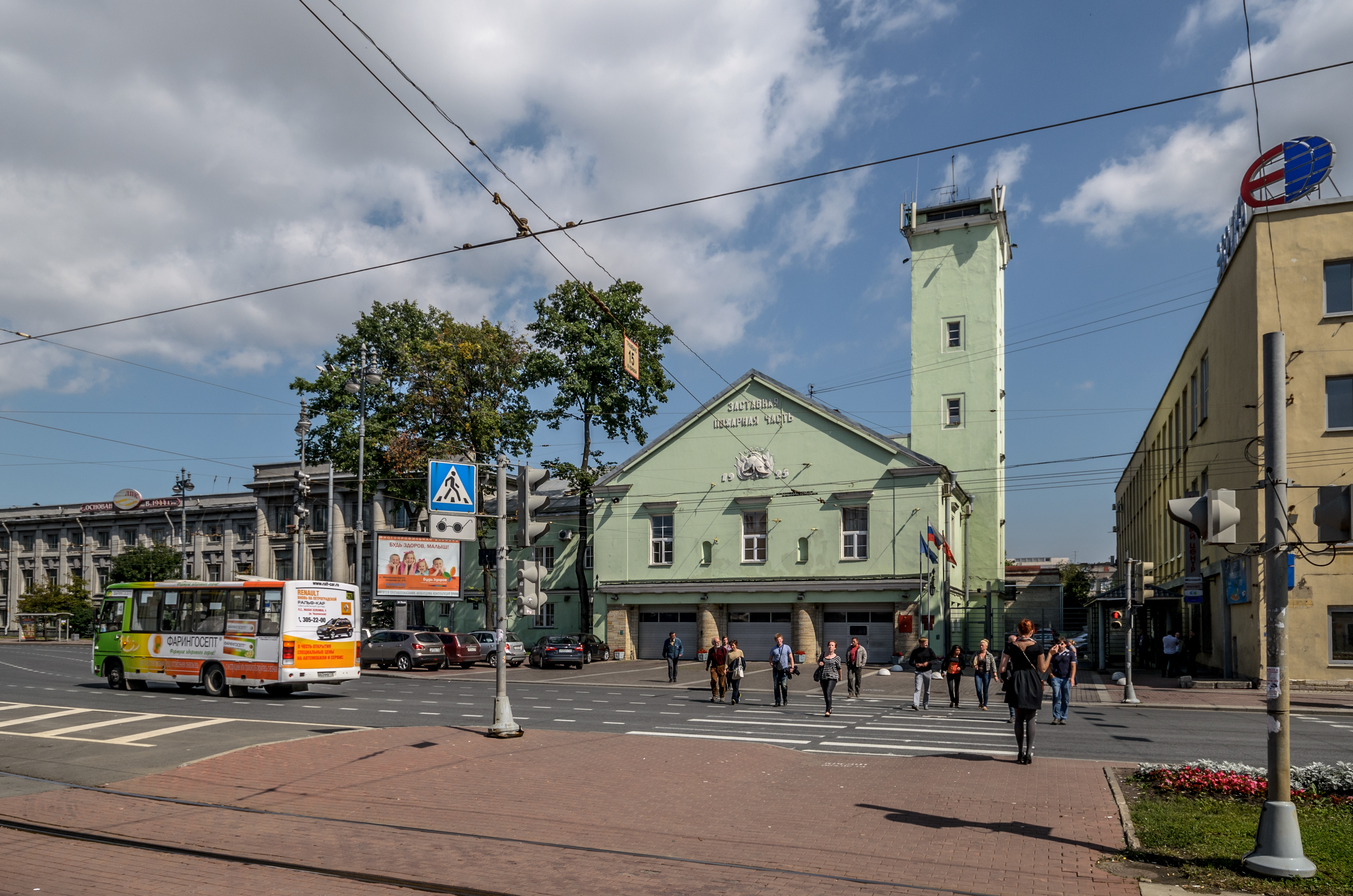 Moskovskaya Gate Firehouse in Saint Petersburg